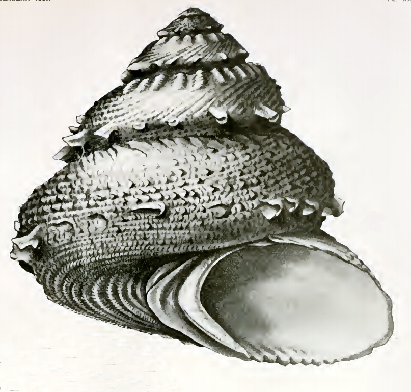 Bolma aureola (Hedley, 1907); family Turbinidae